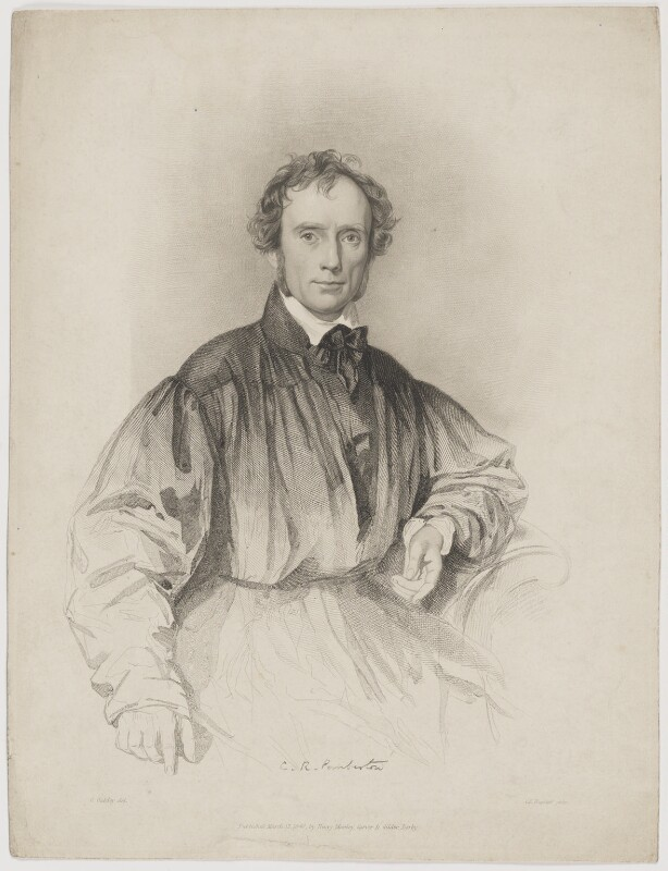 Portrait of Charles Reece Pemberton (1790–1840), British actor.